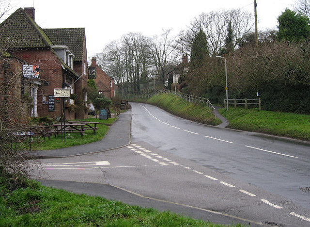 Old Village Road, Little Weighton, East Riding of Yorkshire, England.Re-creation of a Francis Frith photograph c1960 at Link The Public House on the left is still called the Black Horse but has been totally rebuilt; street lighting has been introduced but the original telephone pole survives.